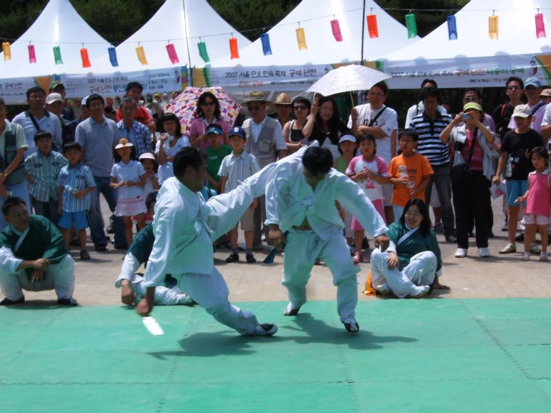 Martial artists practicing Taekkyeon (택견) for Hi! Seoul Festival on April 28th 2007